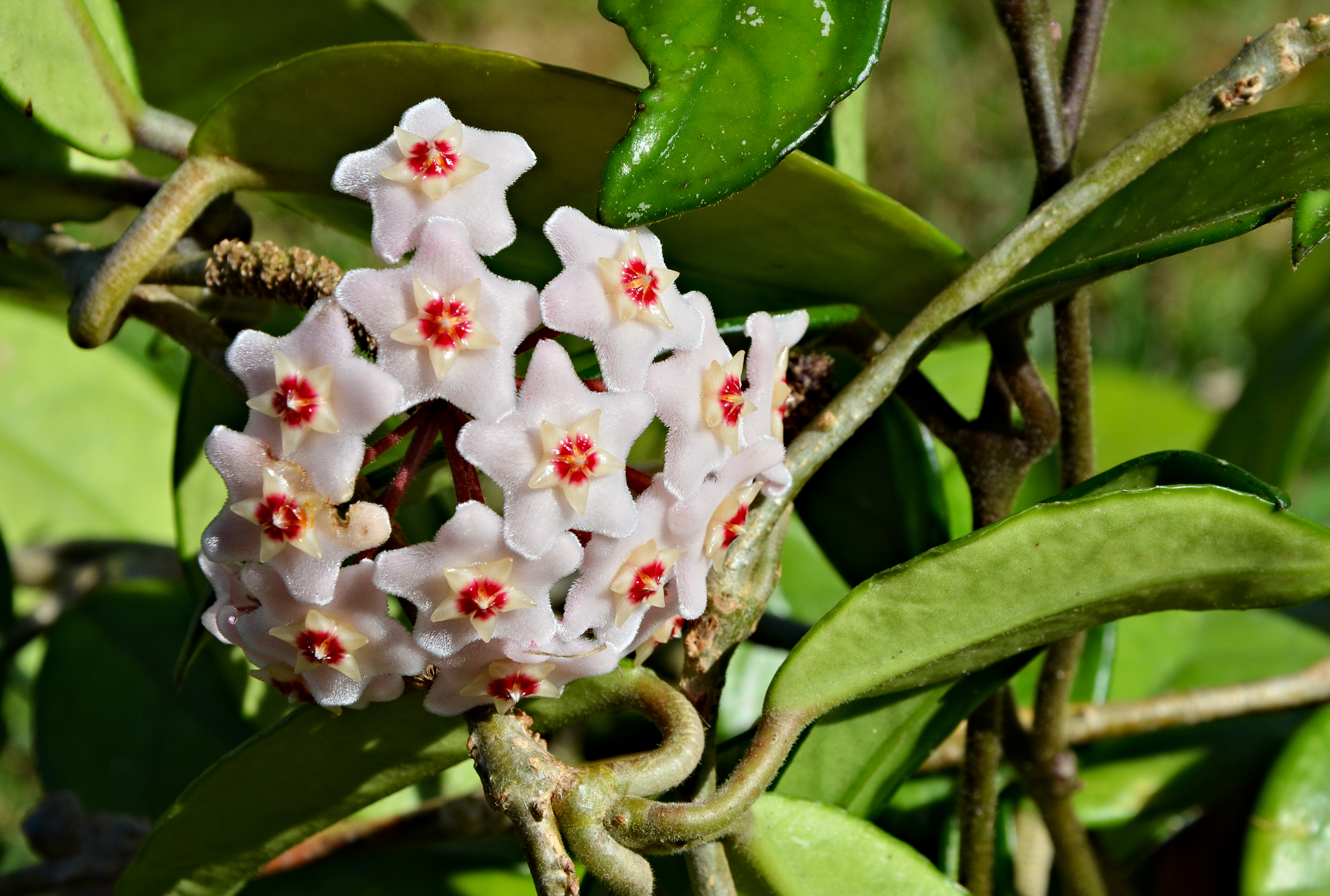 Hoya (Hoya carnosa), inflorescence, in a garden, France..